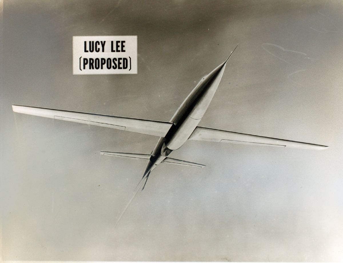 Catalog #: 04_03971 Title : Teledyne Ryan AQM-34 Tom Cat Date: 1950-1989 Corporation Name : Ryan Aeronautical, Teledyne Ryan Location: Ryan Envelopes Tags: Teledyne, Ryan, AQM-34, Tom Cat, 1950-1989